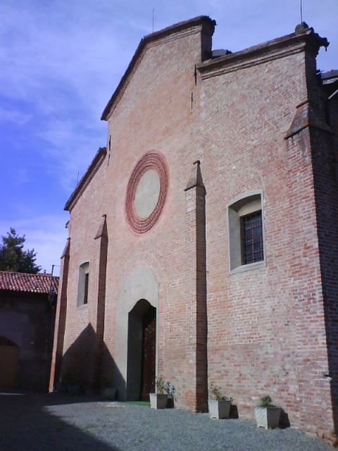 Monument of Incisa Scapaccino